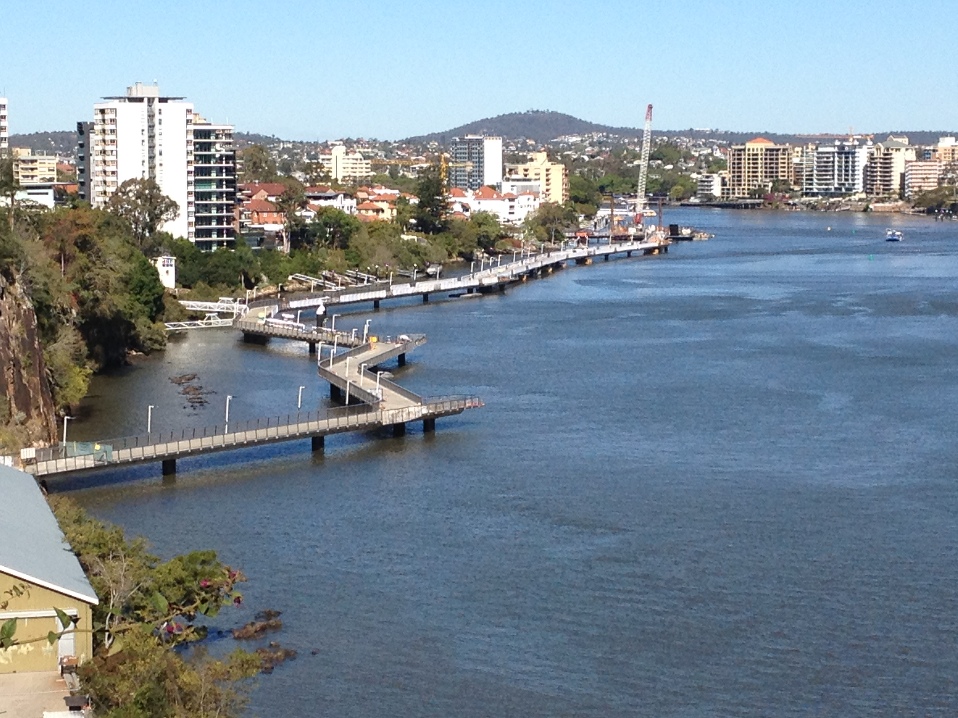 Riverwalk Brisbane under construction in 07.2014 along the New Farm bank of the Brisbane River.